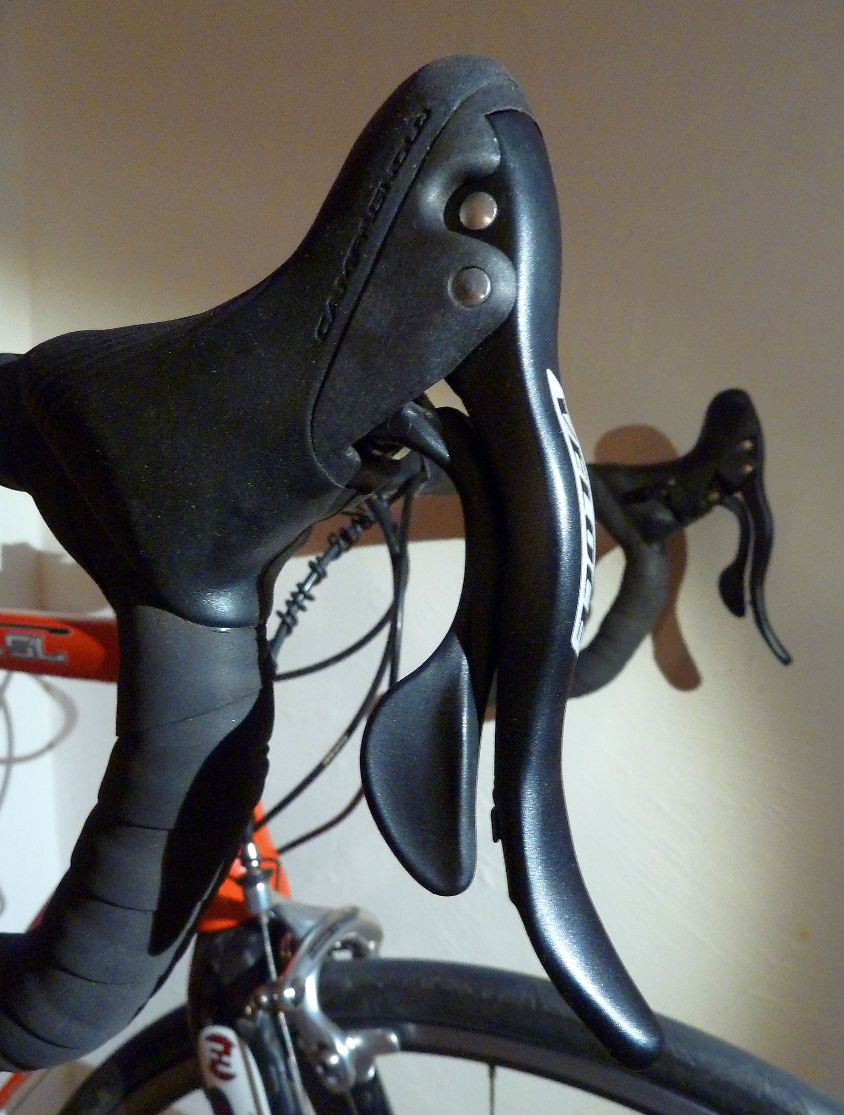 Campagnolo Ergopower Veloce Ultra-Shift (2010)